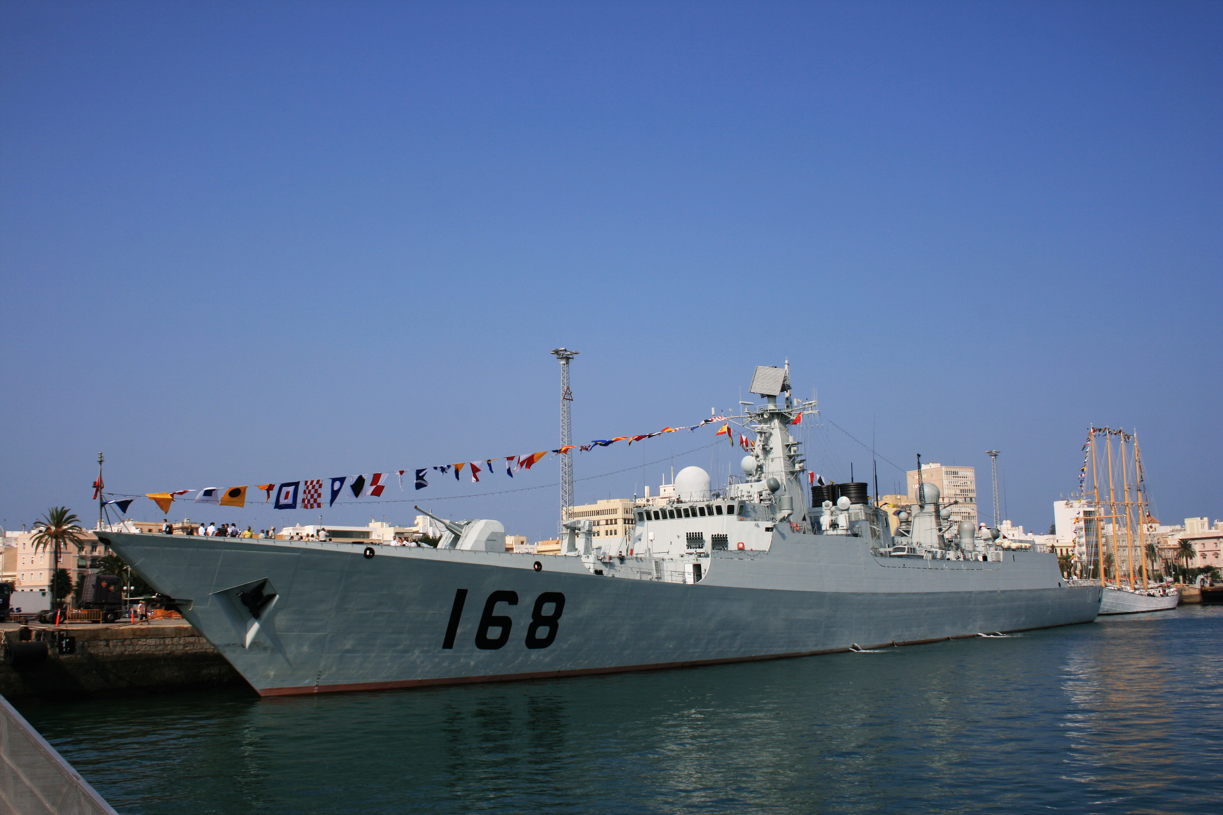 Luyang-I class destroyer Guangzhou